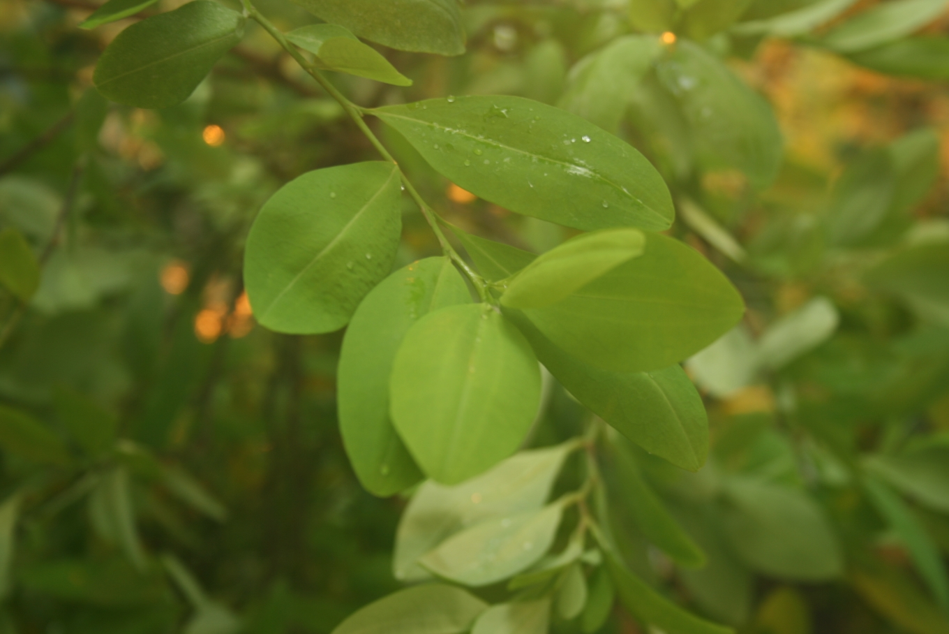 Erythroxylum coca: Foliage